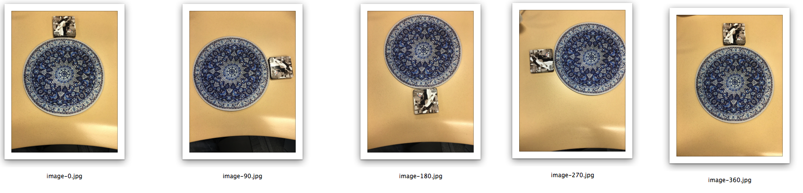 Block Sliding over a circle